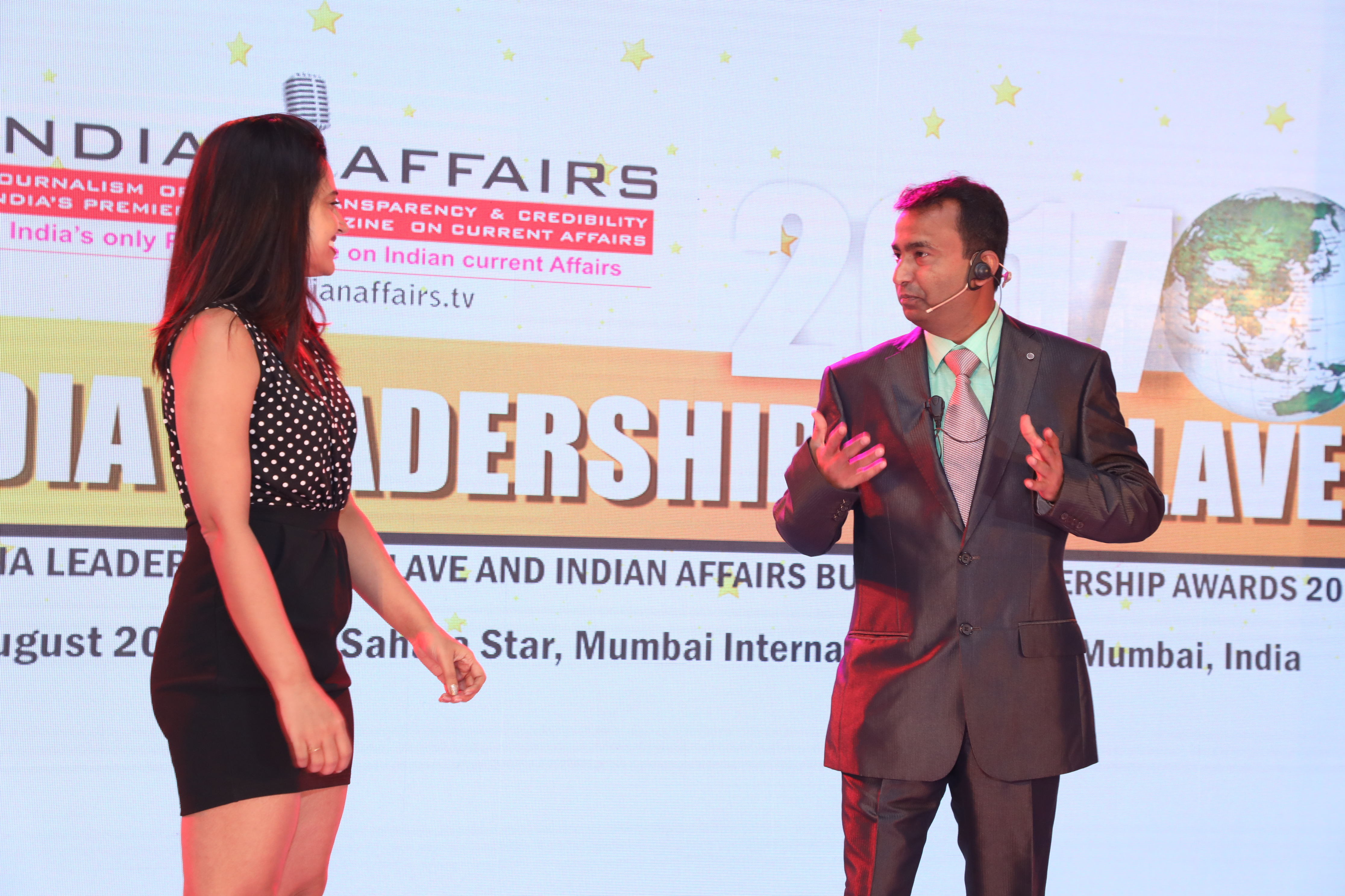 Lezlie Tripathy seen with India Leadership Conclave Founder Chairman Satya Brahma at the conclave debate